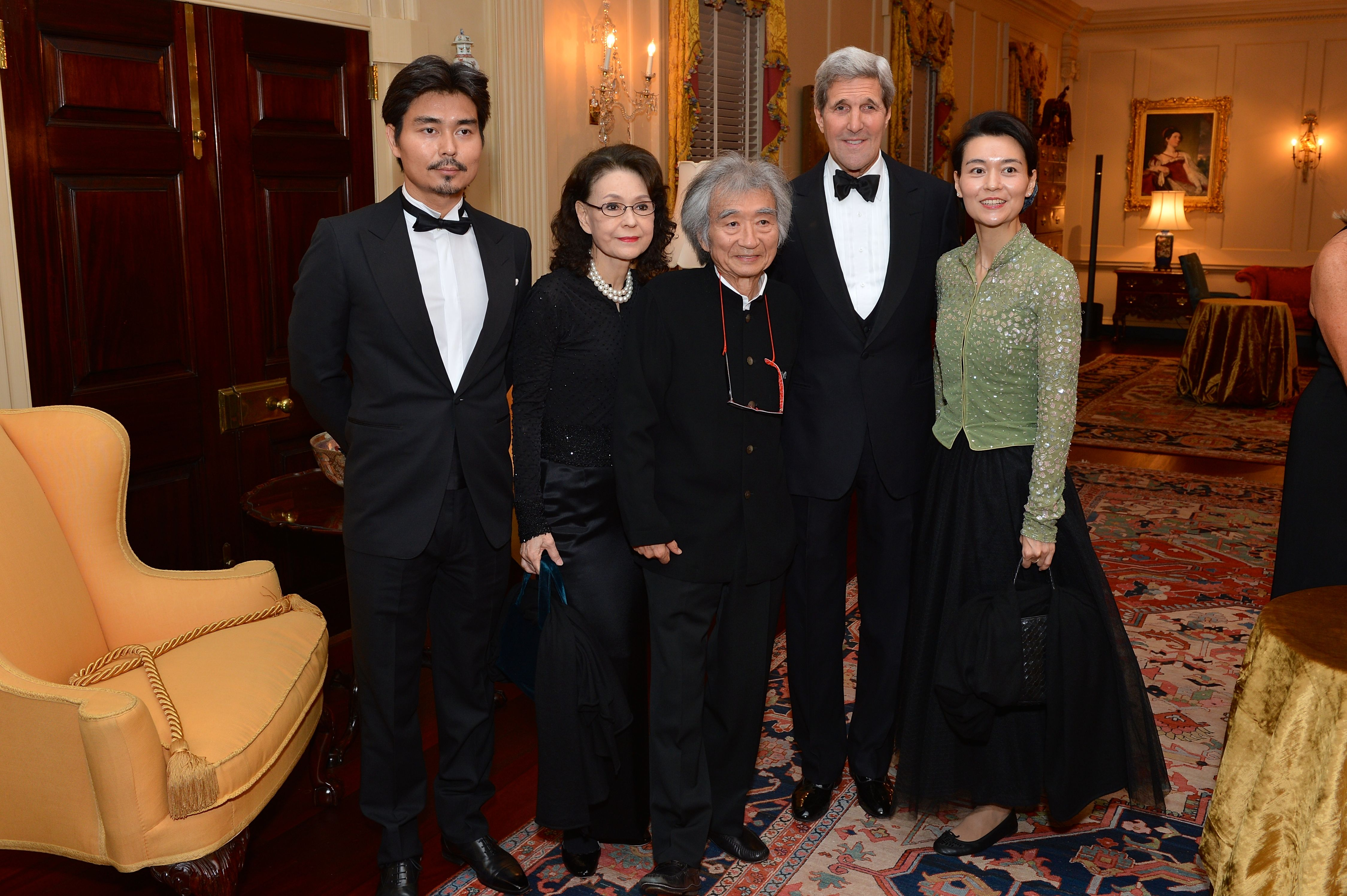 U.S. Secretary of State John Kerry poses for a photo with 2015 Kennedy Center Honors recipient conductor Seiji Ozawa and his family at the Kennedy Center Honors Dinner at the U.S. Department of State in Washington, D.C., on December 5, 2015. [State Department photo/ Public Domain]